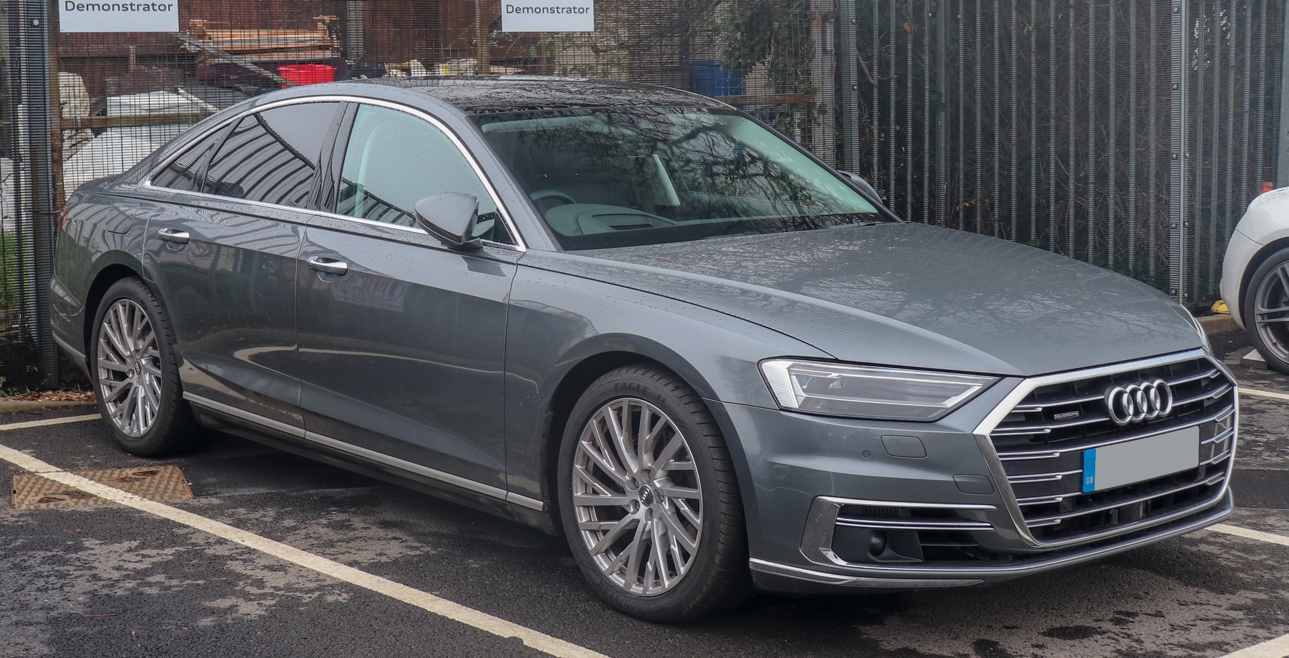 2018 Audi A8 50 TDi Quattro Automatic 3.0 Taken in Stratford-upon-Avon